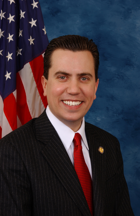 Dan Boren, member of the United States House of Representatives.